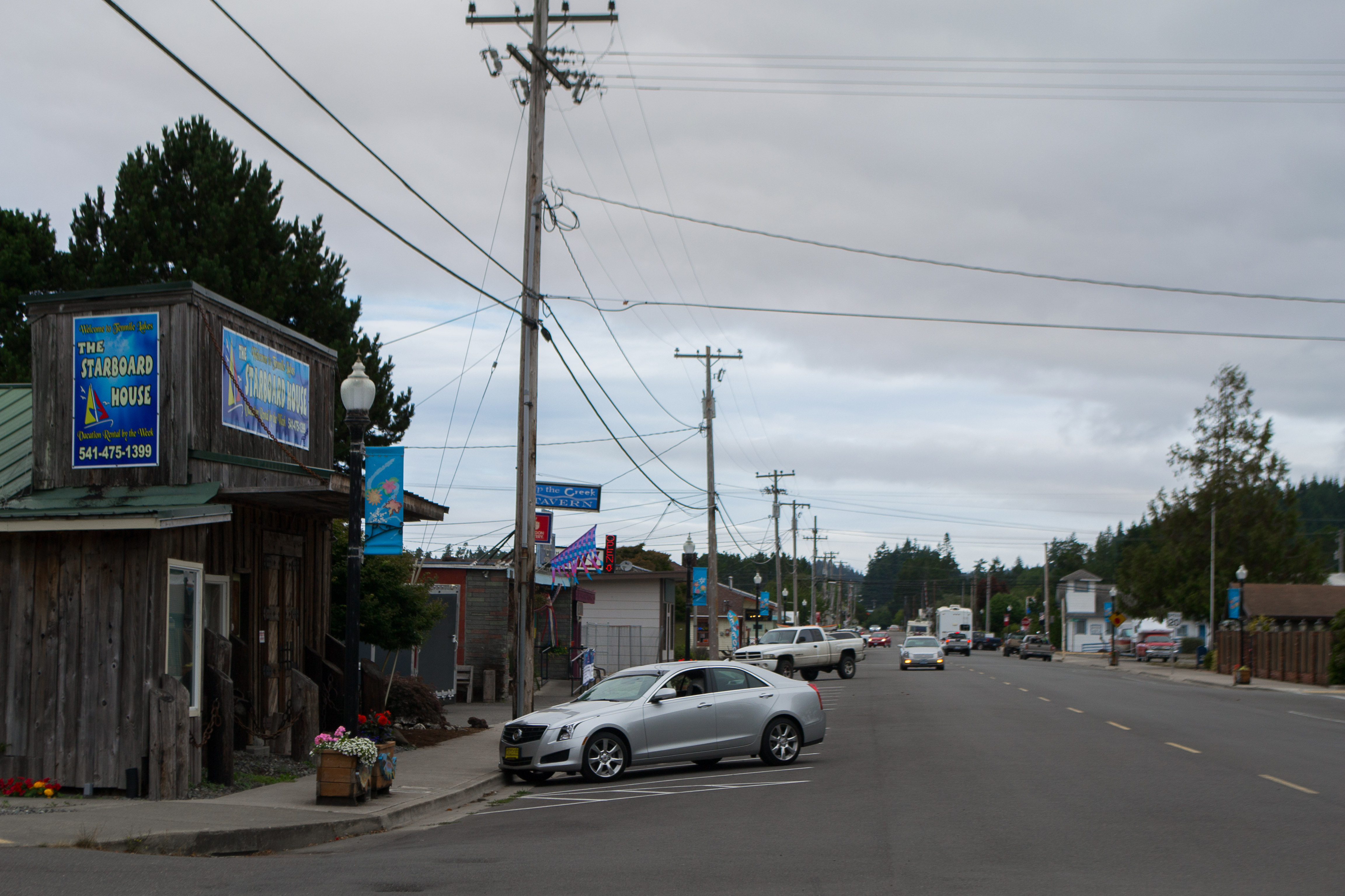 A view north on South Eighth Street in Lakeside, Oregon